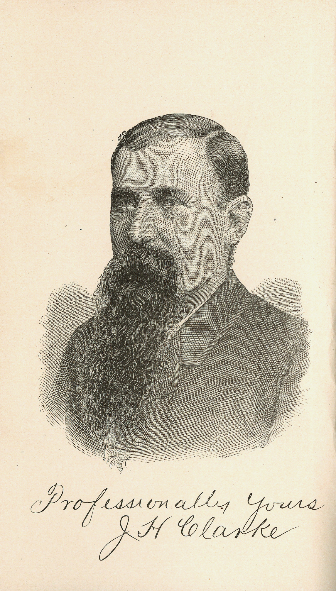 Sketch of Joseph Henry Clarke